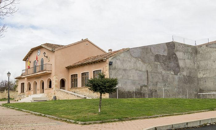 Ayuntamiento y frontón